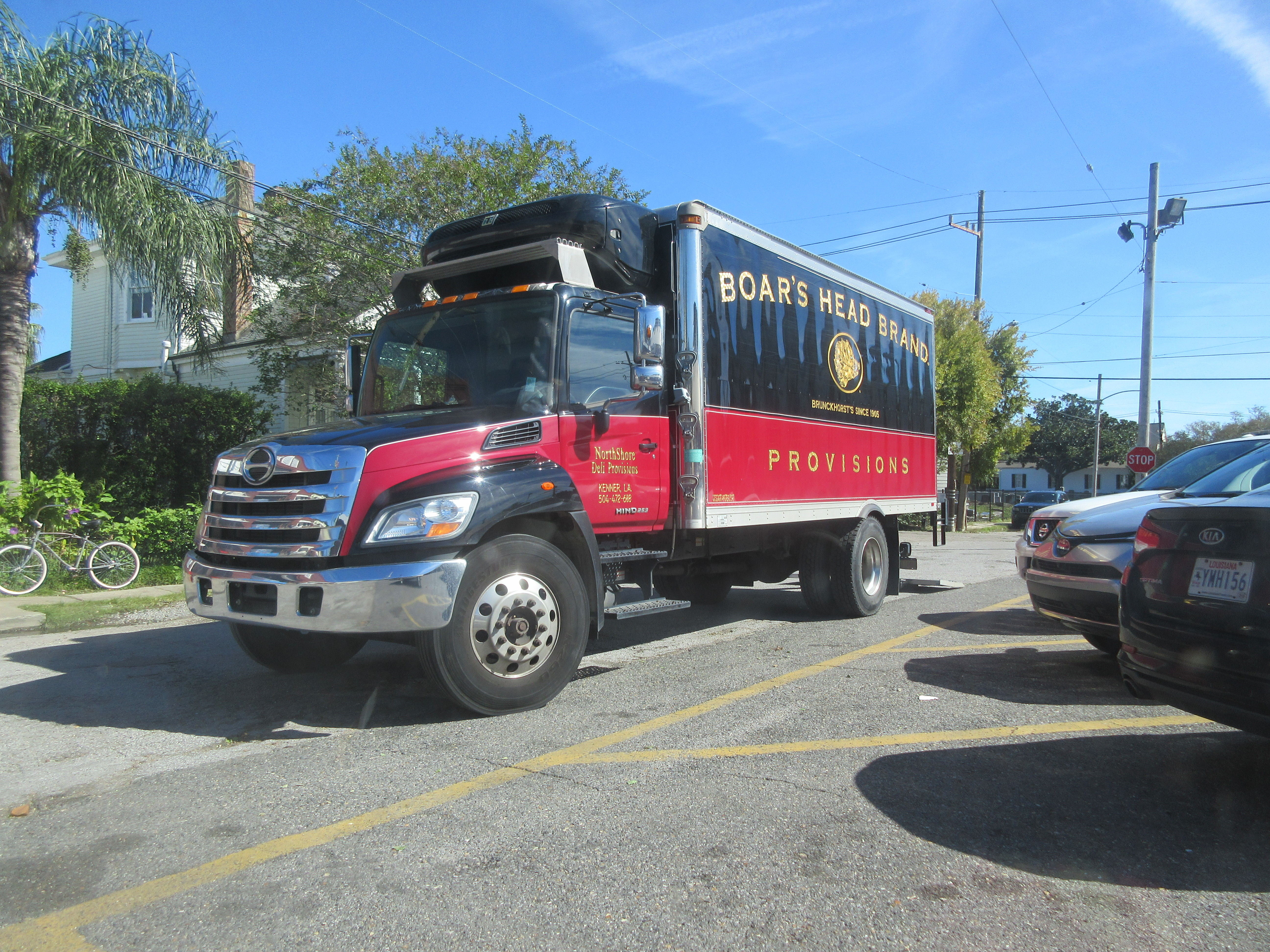 Uptown New Orleans. "Boar's Head Brand" truck delivering at Langestein's grocery.